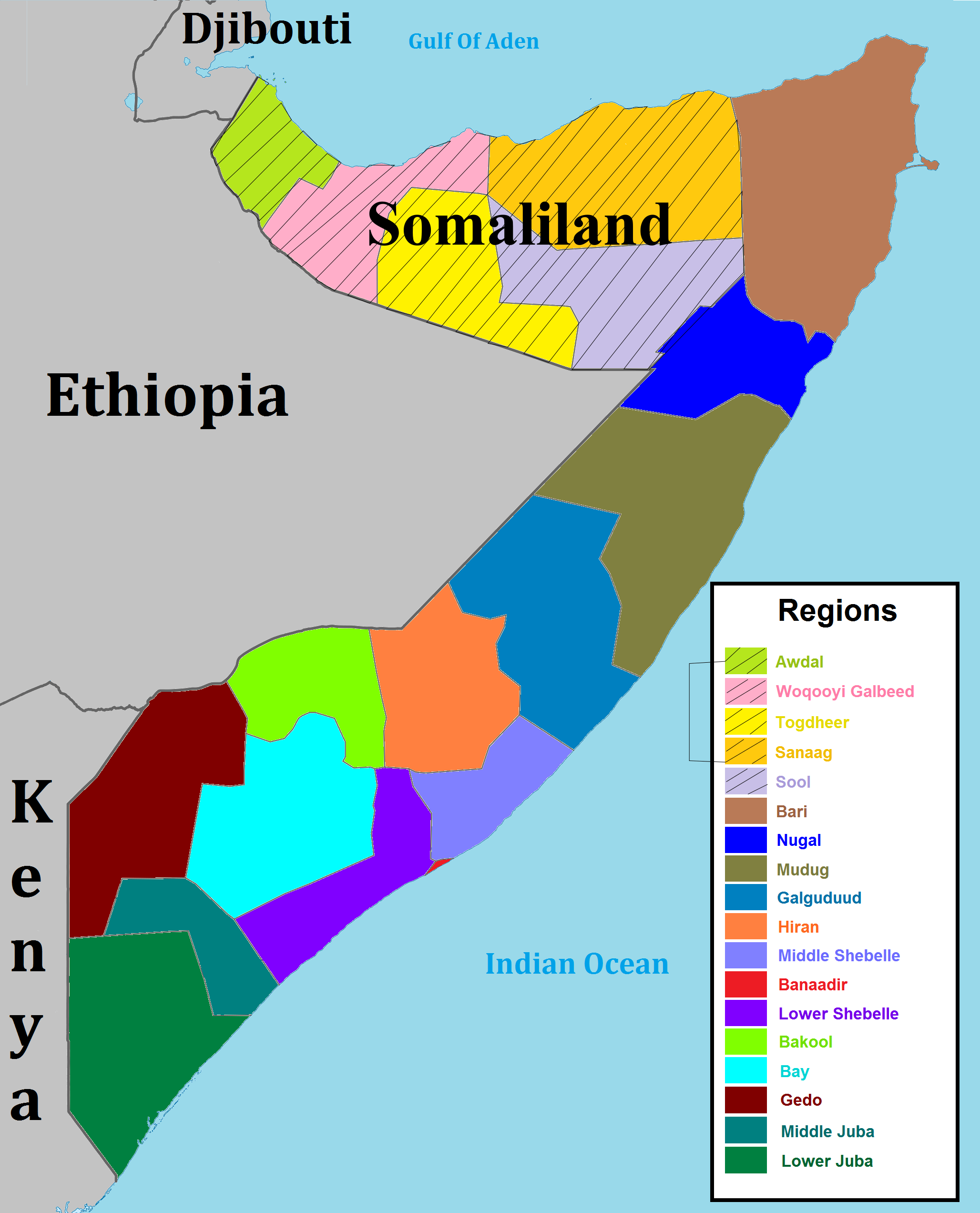 A map of Somalia regions.